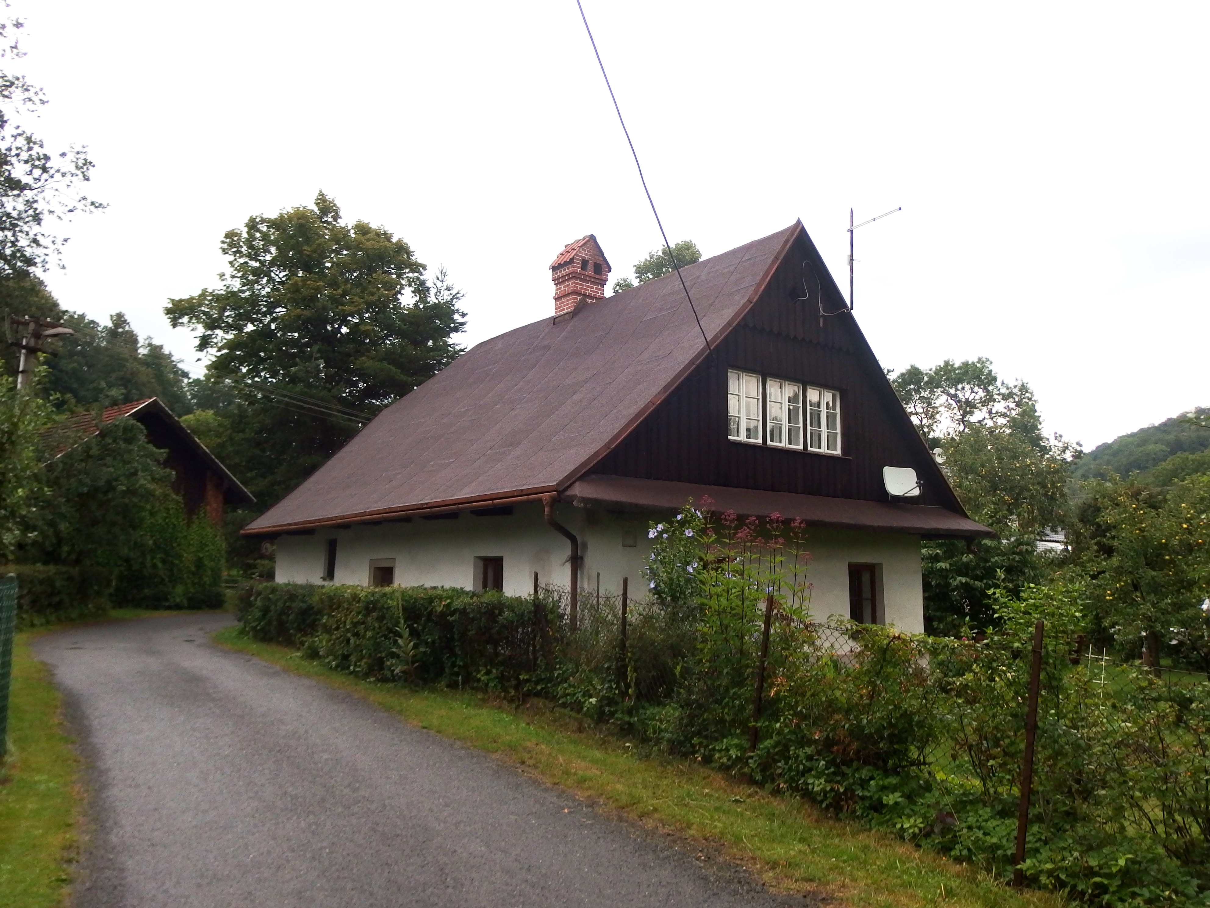 Kopřivnice, Nový Jičín District, Czech Republic, part Vlčovice.